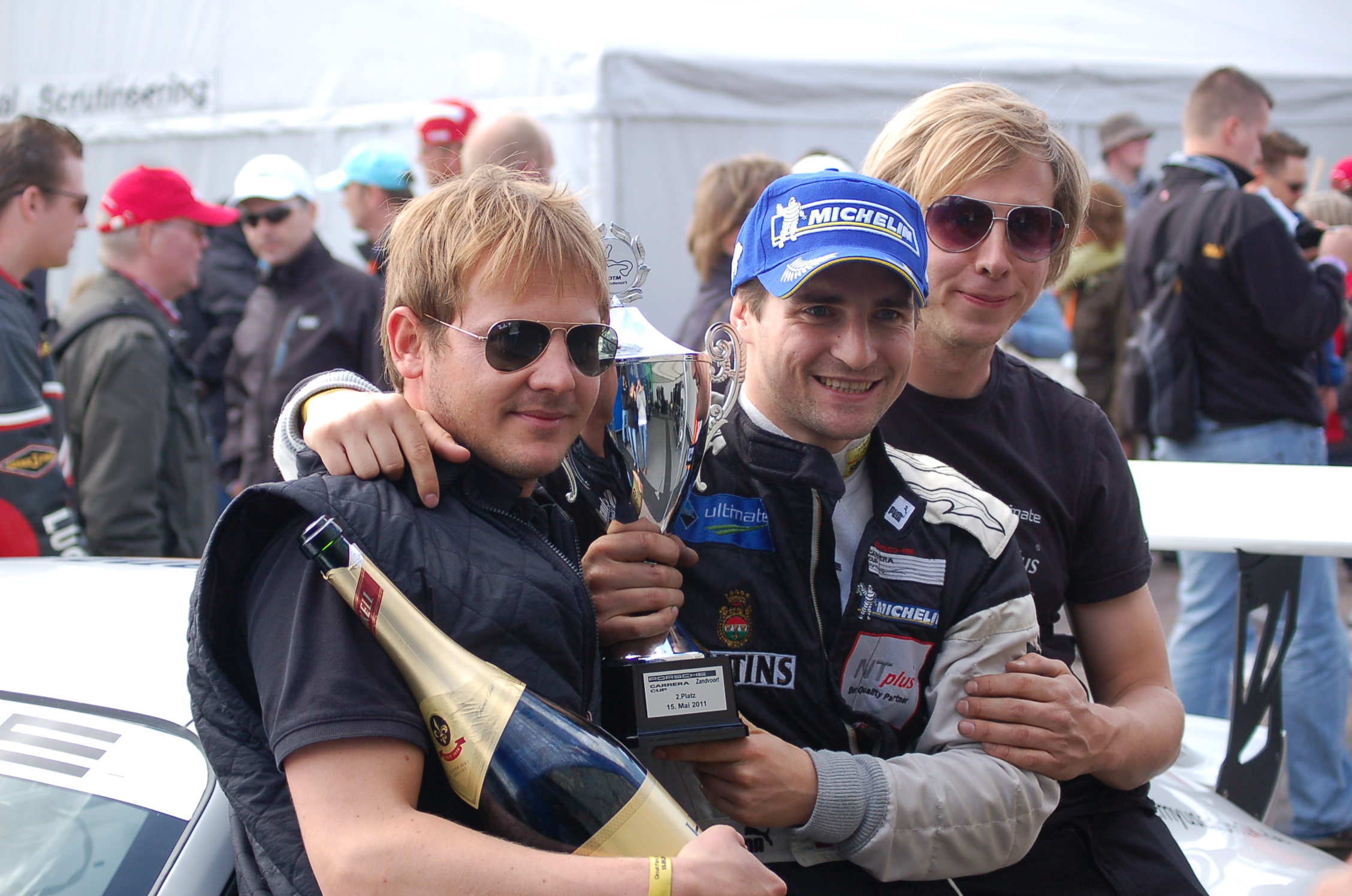 Martin Ragginger after his 2nd place at Zandvoort 2011